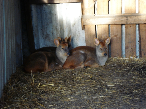 Pudu puda